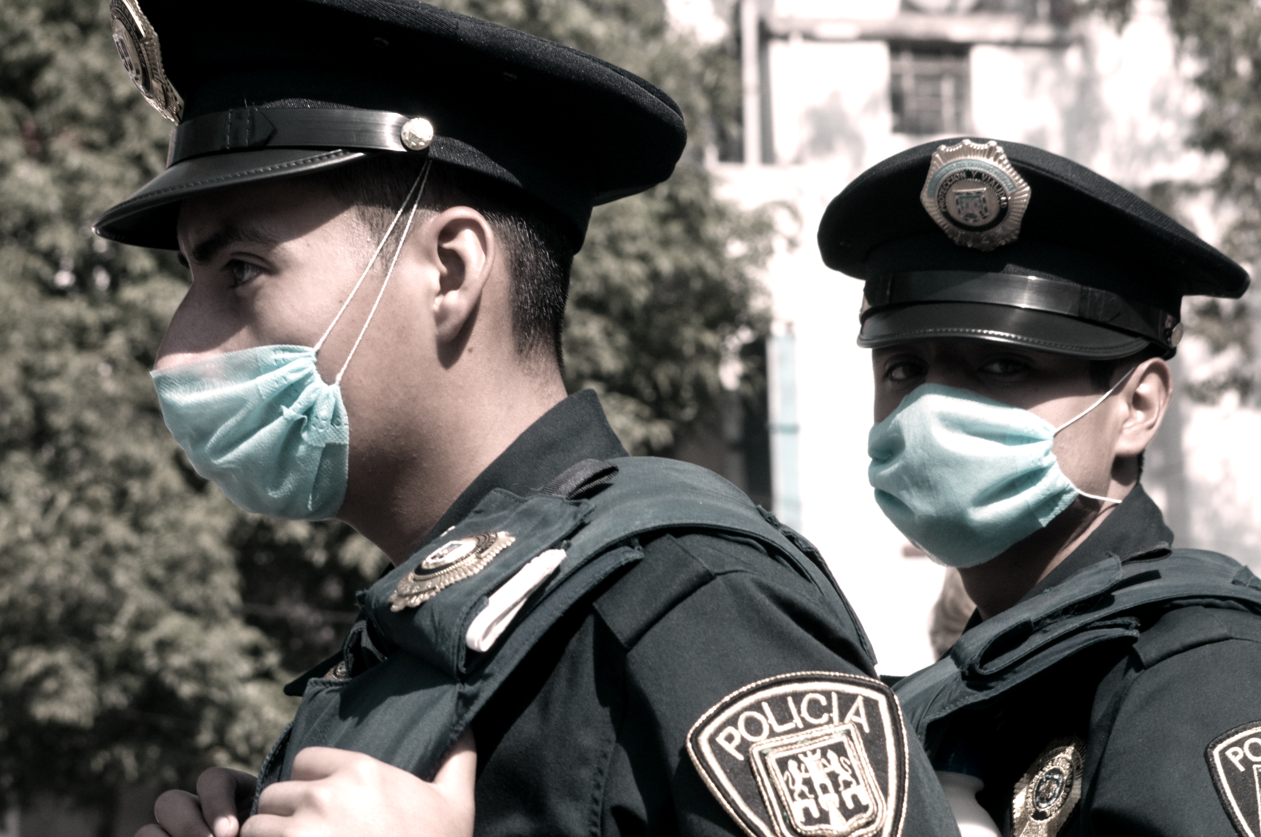 Mexican police officers with masks on in an attempt to protect themselves from a swine flu outbreak.